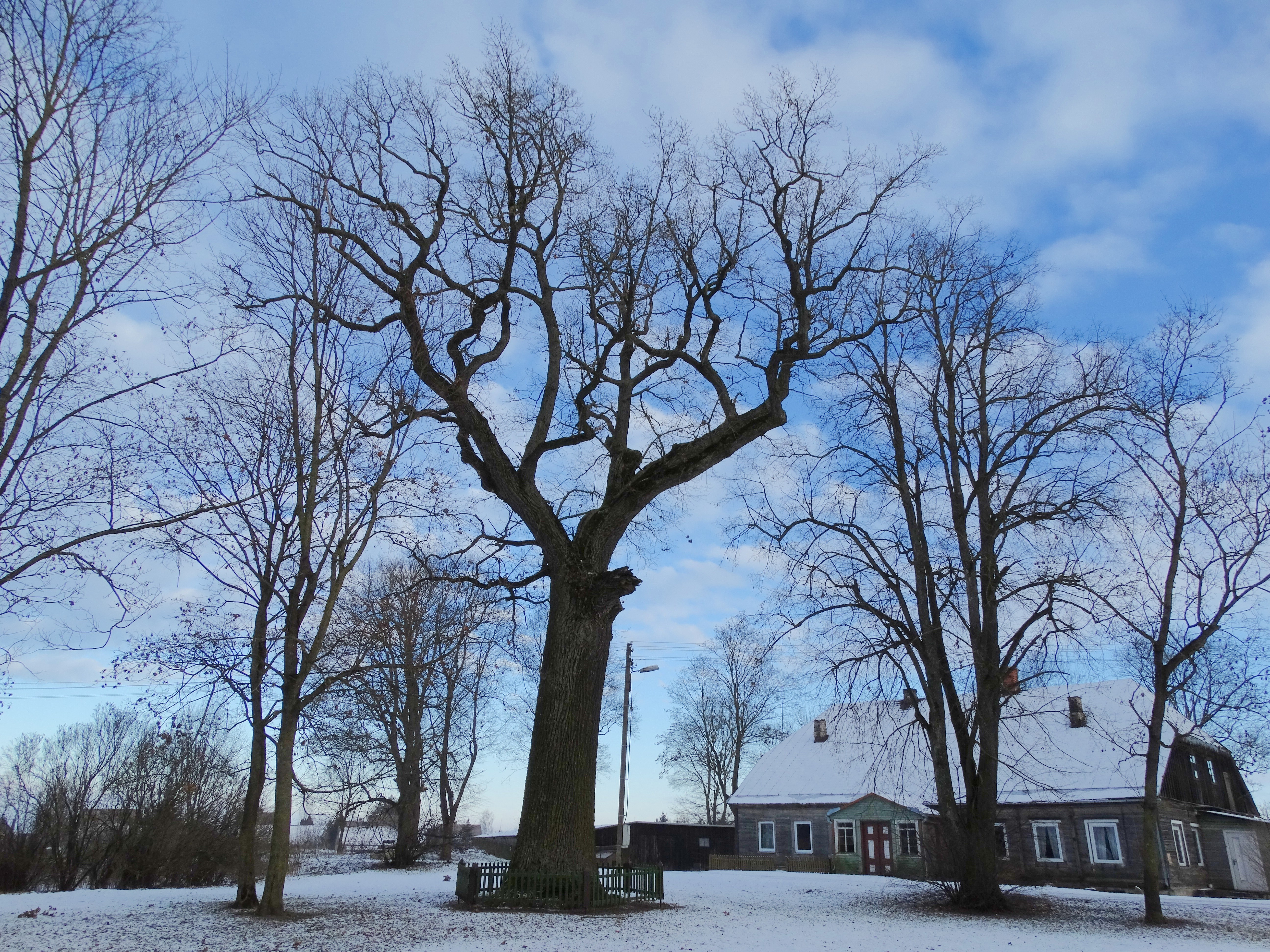 Klovainiai Oak Storasis, Pakruojis District, Lithuania